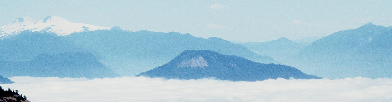 Cerro Carrán (center) in central Chile, as seen from south; Mocho-Choshuenco volcano in left background